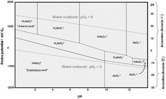 Gives information about the Arsenic state at different conditions of pH and pE